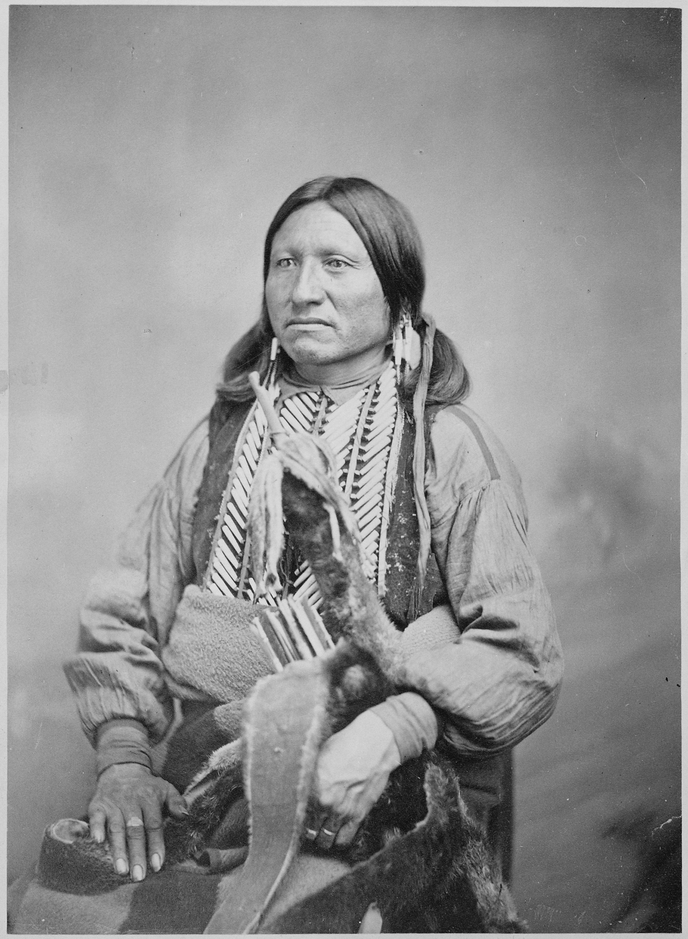 Scope and content: [Ton-e-onca or Kicking Bear (Tene-angopte)].